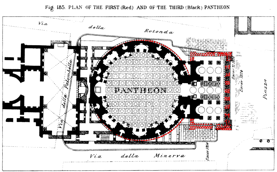 Plan of the first (Red) (by Marcus Vipsanius Agrippa) and of the third (Black) (by Hadrian) Pantheon.